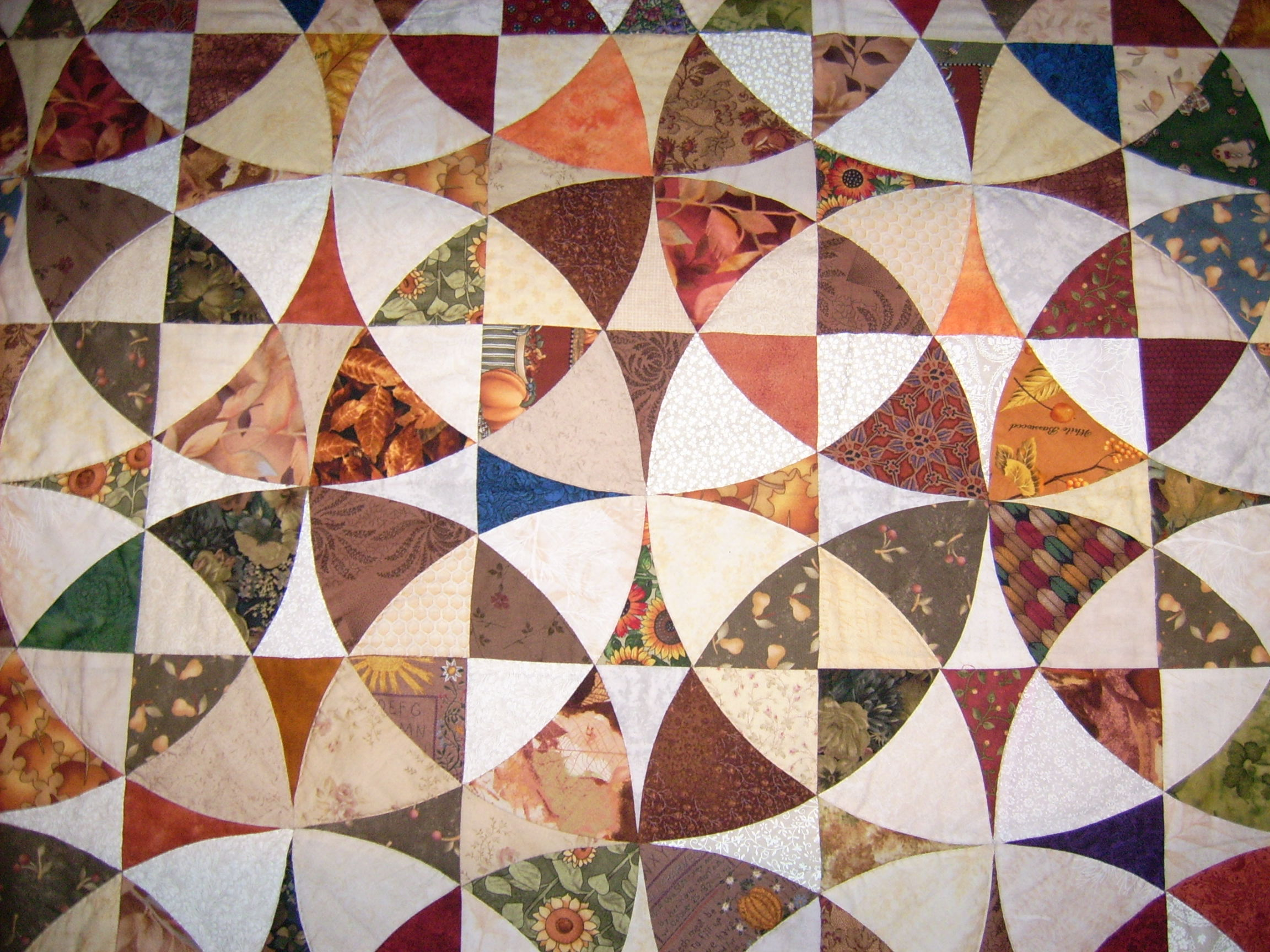 Patchwork, "Winding Ways" pieced pattern